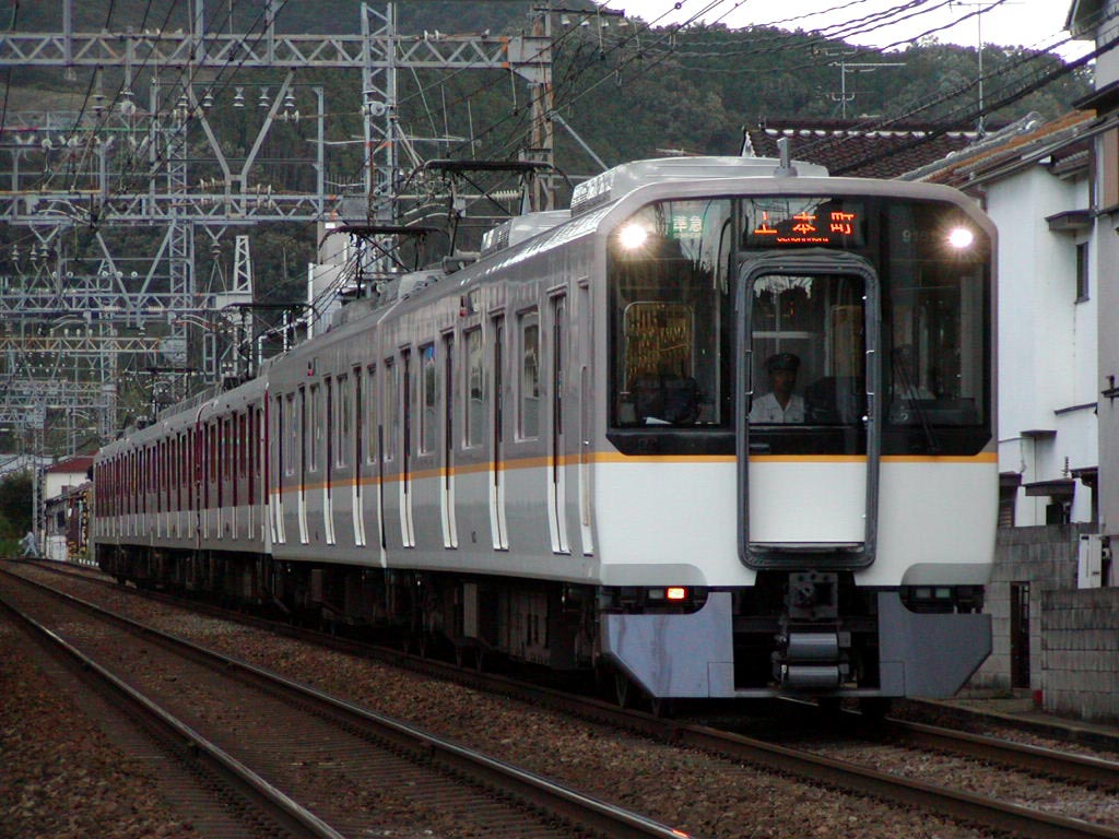 Kintetsu 9020 series EMU set 9051 on an Osaka Line service